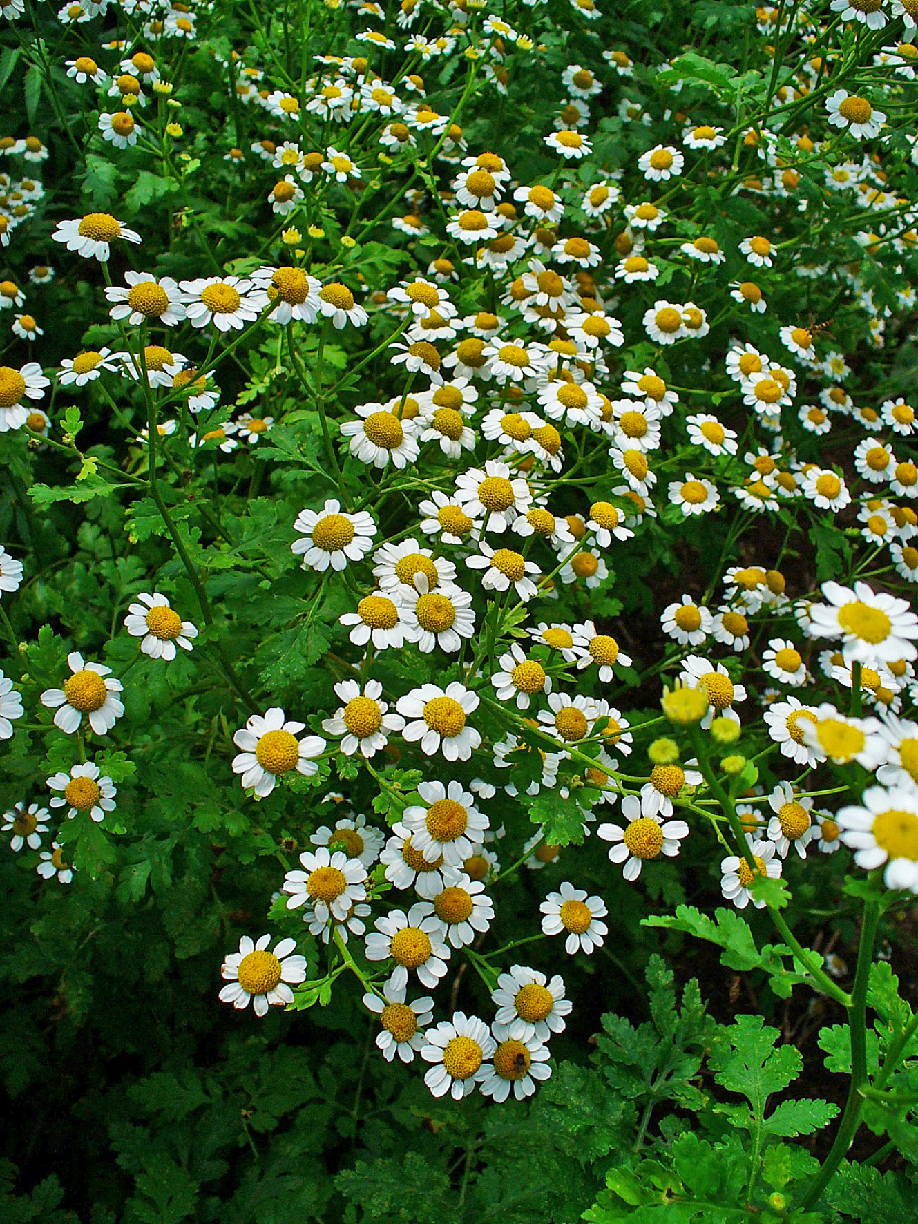 Tanacetum parthenium, Asteraceae, Feverfew, inflorescences.